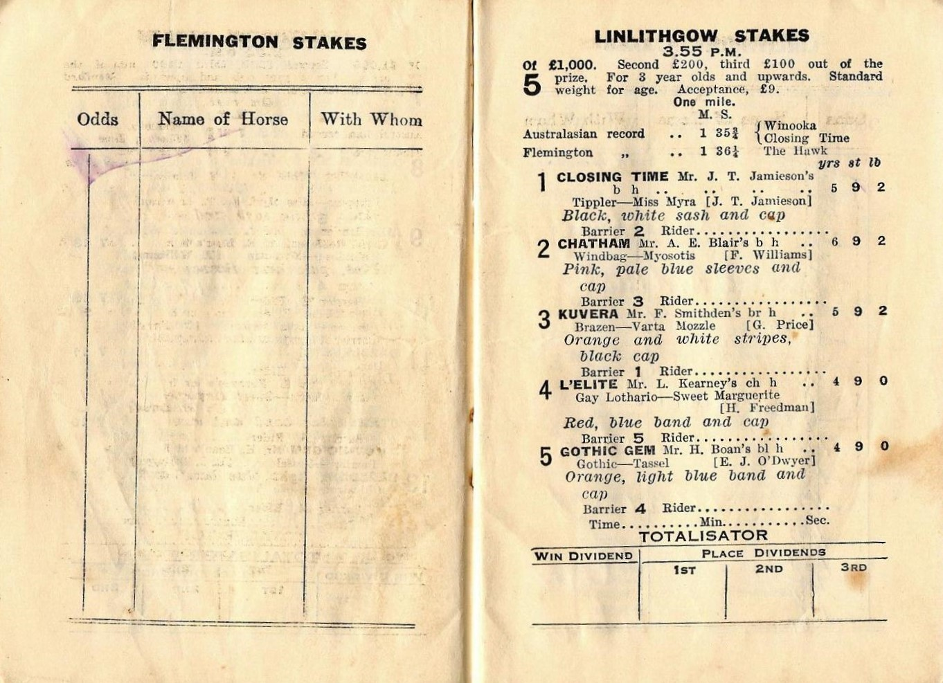 COPIED FROM ORIGINAL RACEBOOK